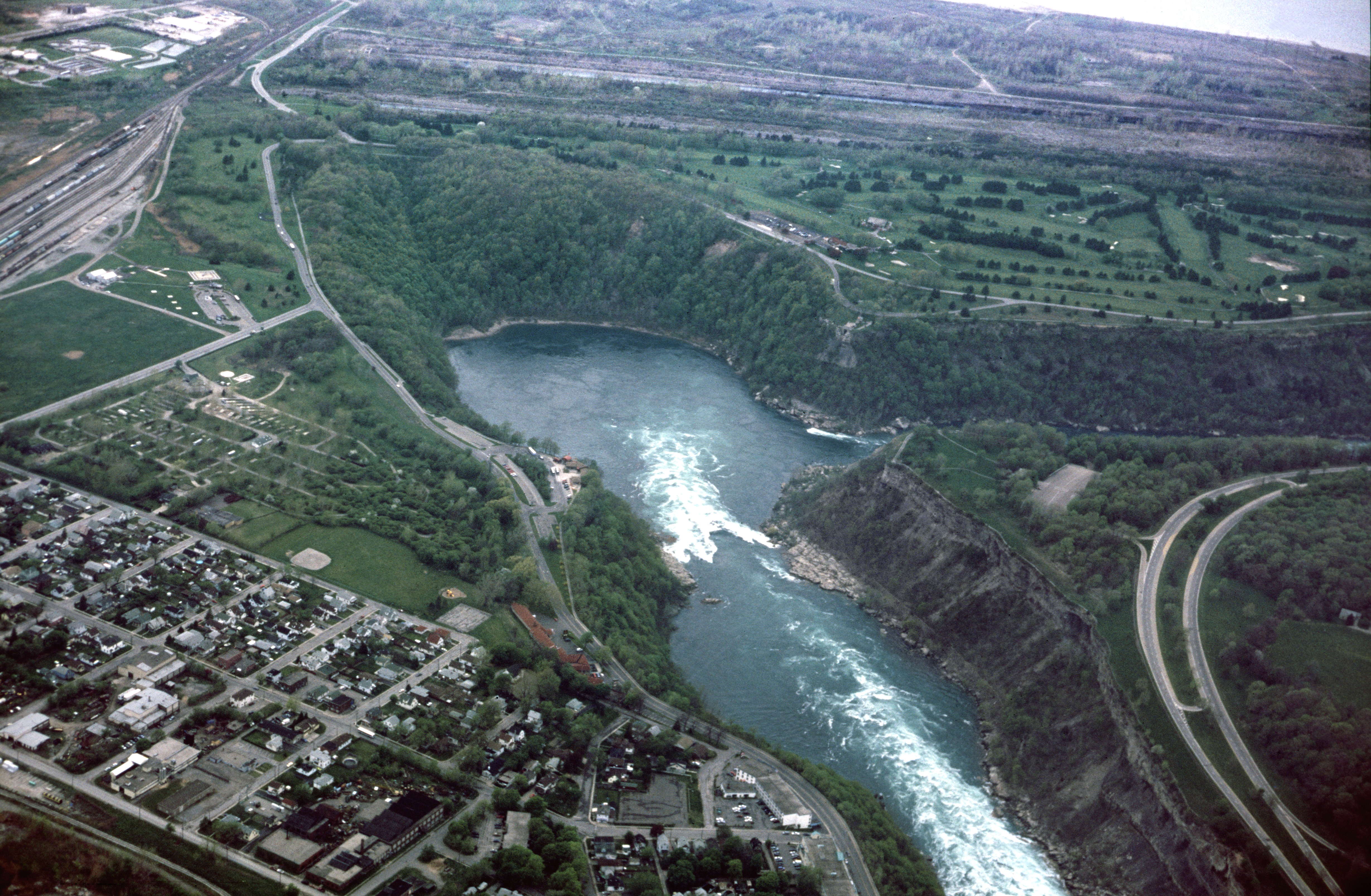 Niagara River: Whirlpool (aerial view). The outskirts of Niagara Falls and the Niagara Glen-View Park is in the lower left, and the Whirlpool Golf Course is in the upper right.